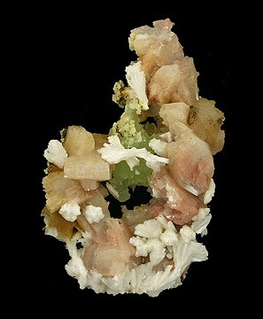 Heulandite, Laumontite, Prehnite Locality: Upper New Street Quarry (Burger's Quarry), Paterson, Passaic County, New Jersey, USA (Locality at ) Size: 4.8 x 3.1 x 1.2 cm. This specimen hosts several sharp, lustrous, pearly, pink colored groups of Heulandite crystals associated with chalk-white Laumontite "sprays" and associated with minor lime green color Prehnite "spheres". Ex. Richard Kosnar Collection.